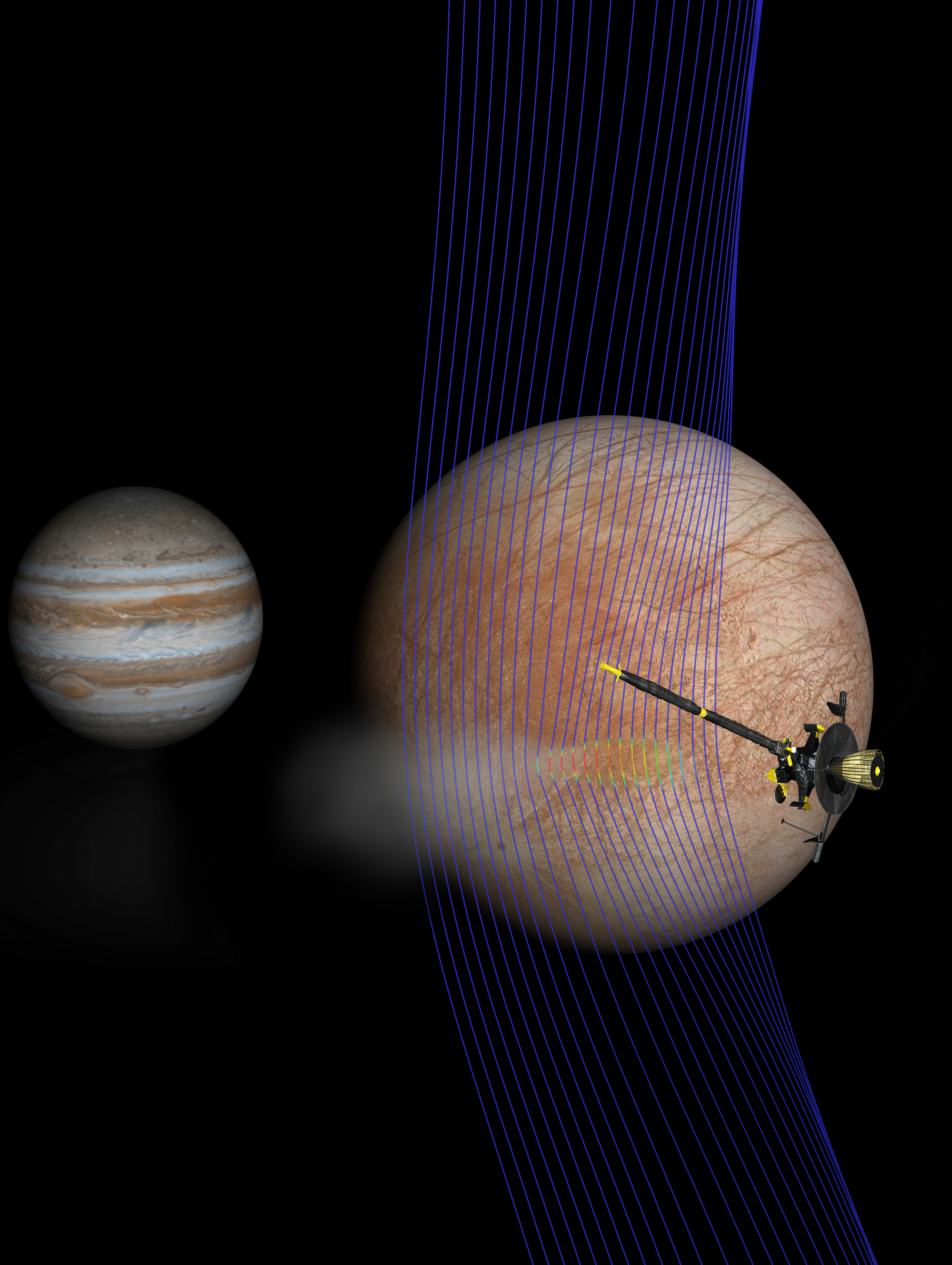 PIA21922: Europa Scene: Plume, Galileo, Magnetic Field (Artist's Concept) Artist's illustration of Jupiter and Europa (in the foreground) with the Galileo spacecraft after its pass through a plume erupting from Europa's surface. A new computer simulation gives us an idea of how the magnetic field interacted with a plume. The magnetic field lines (depicted in blue) show how the plume interacts with the ambient flow of Jovian plasma. The red colors on the lines show more dense areas of plasma.